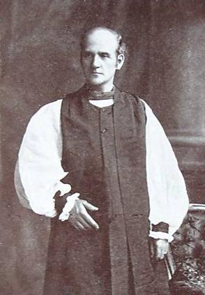 Photograph of A. G. Edwards, Bishop of St Asaph (later Archbishop of Wales), c. 1910